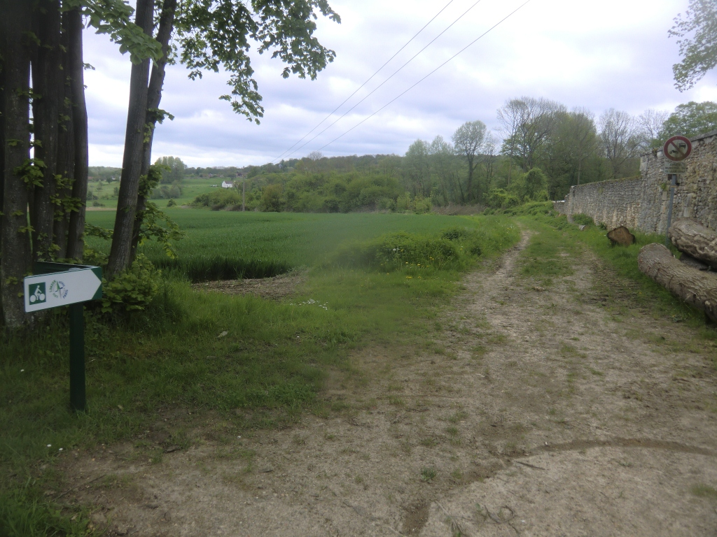 Tronçon non revêtu (juillet 2012)